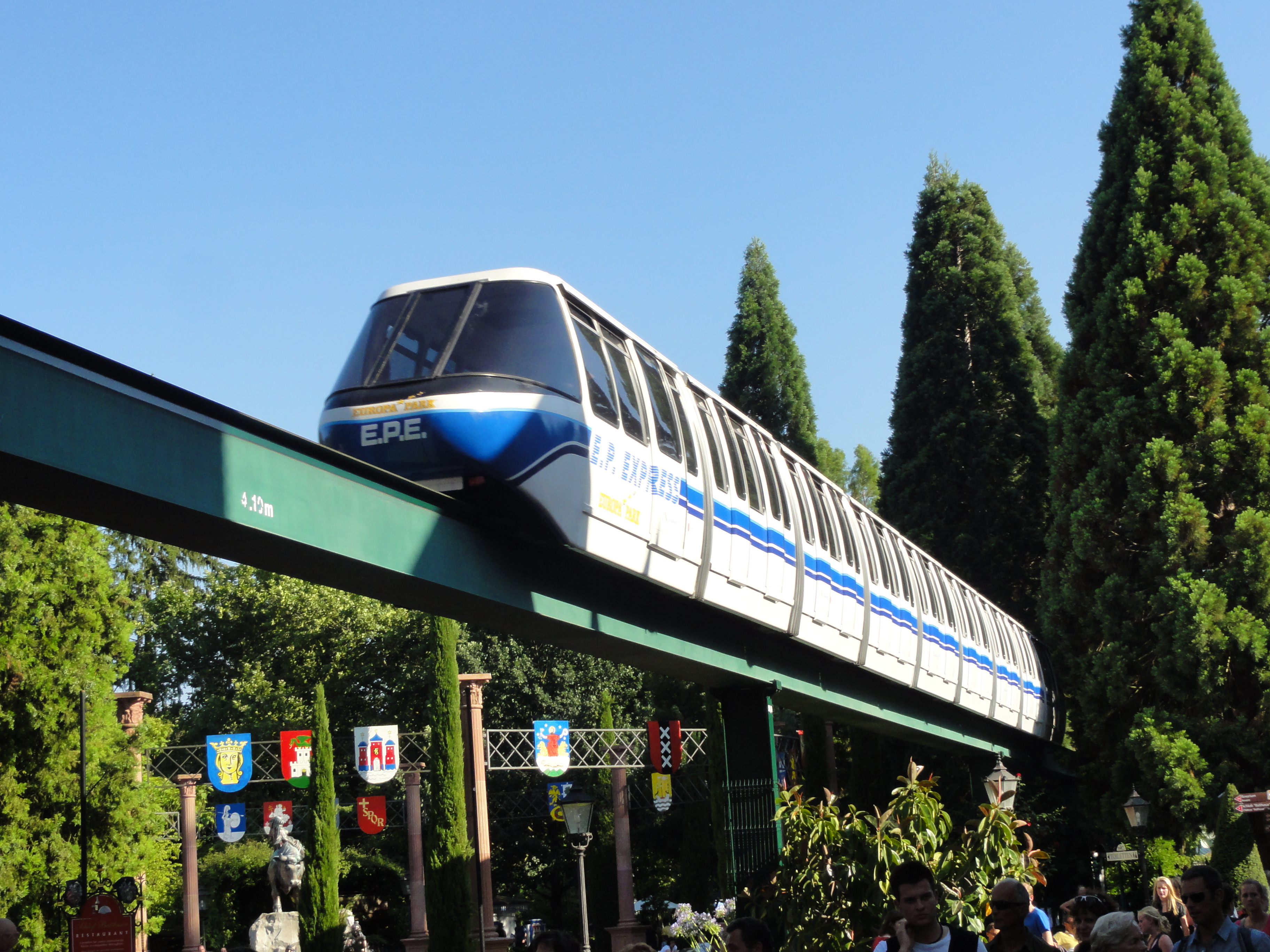 EP-Express, Europa-Park, Rust, Baden-Württemberg, Germany.